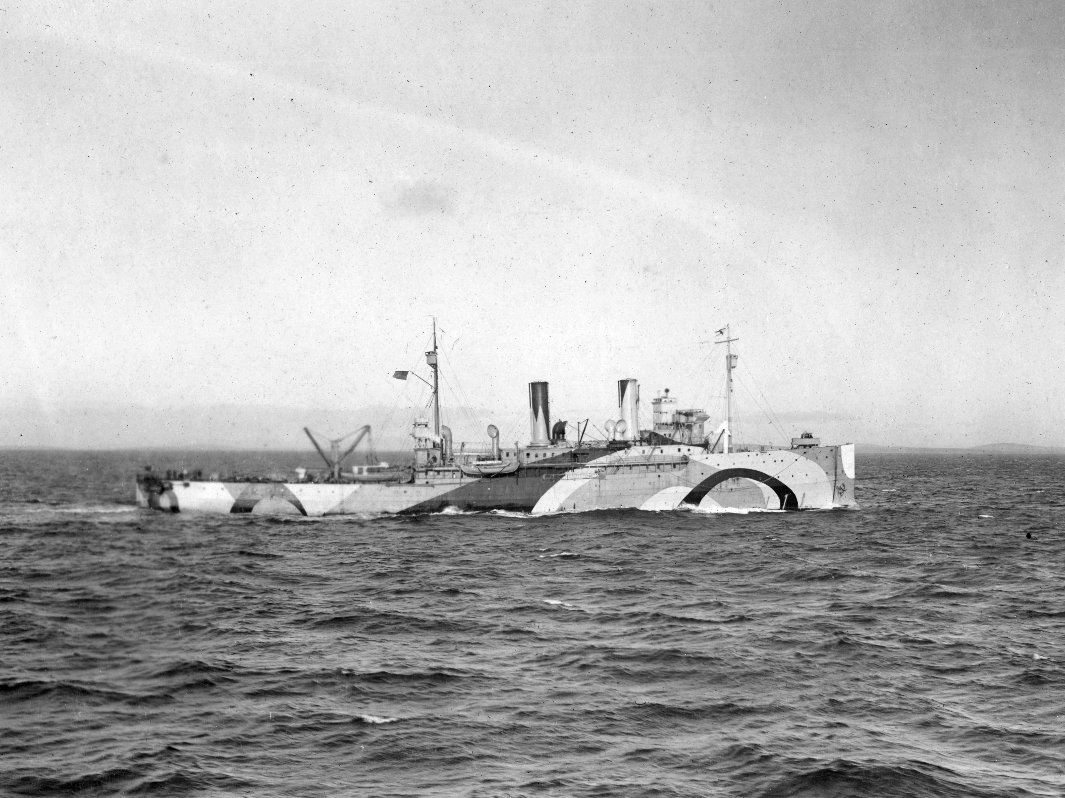 The U.S. Navy minelayer USS Shawmut (ID No. 1255, later CM-4) operating at sea in October 1918, during the laying of the North Sea mine barrage. The ship is painted in a disruptive camouflage scheme. To avoid verbal confusion with USS Chaumont (AP-5), she was renamed Oglala in January 1928.